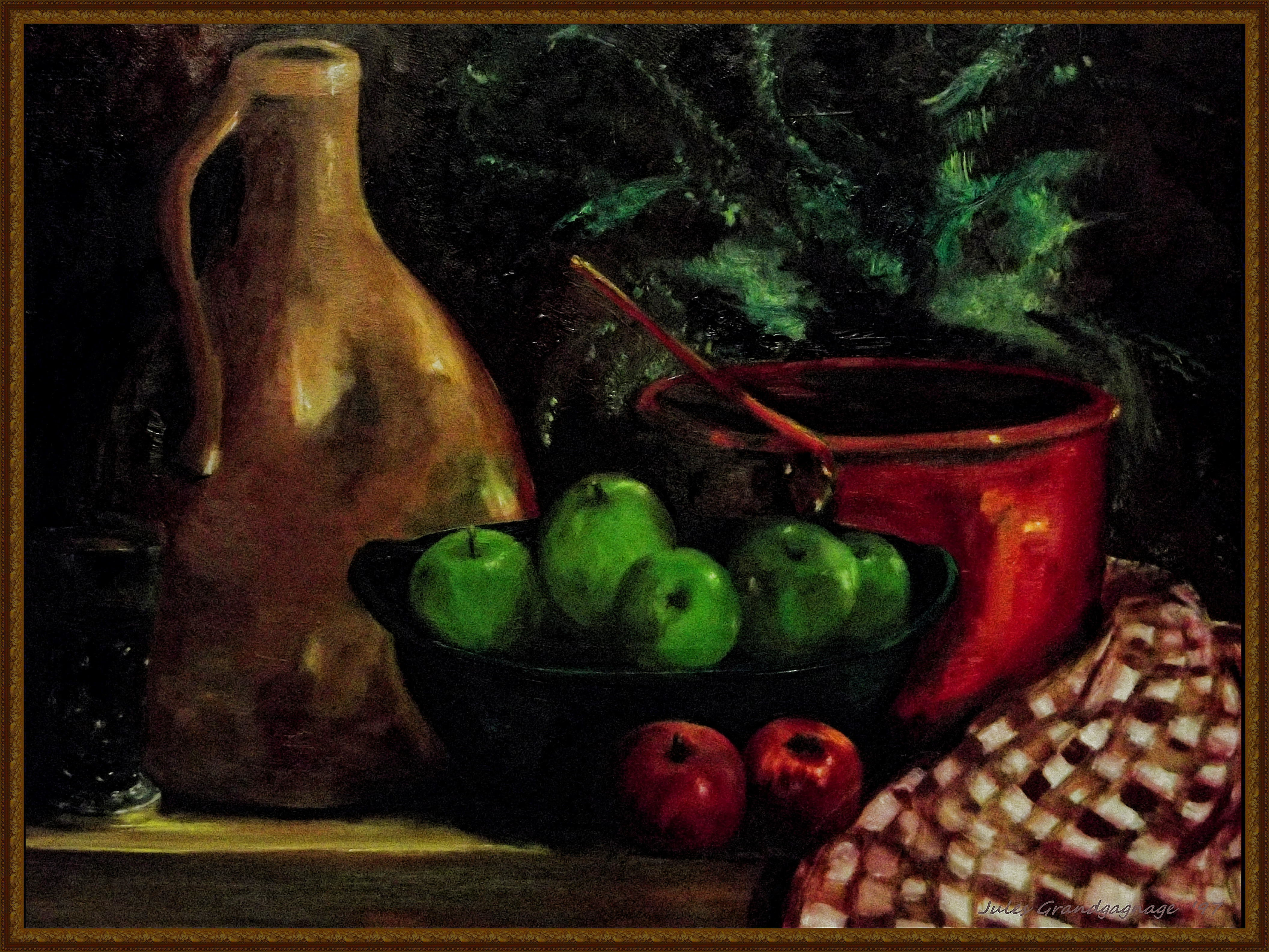 Still life with red and green apples, by Julien Grandgagnage